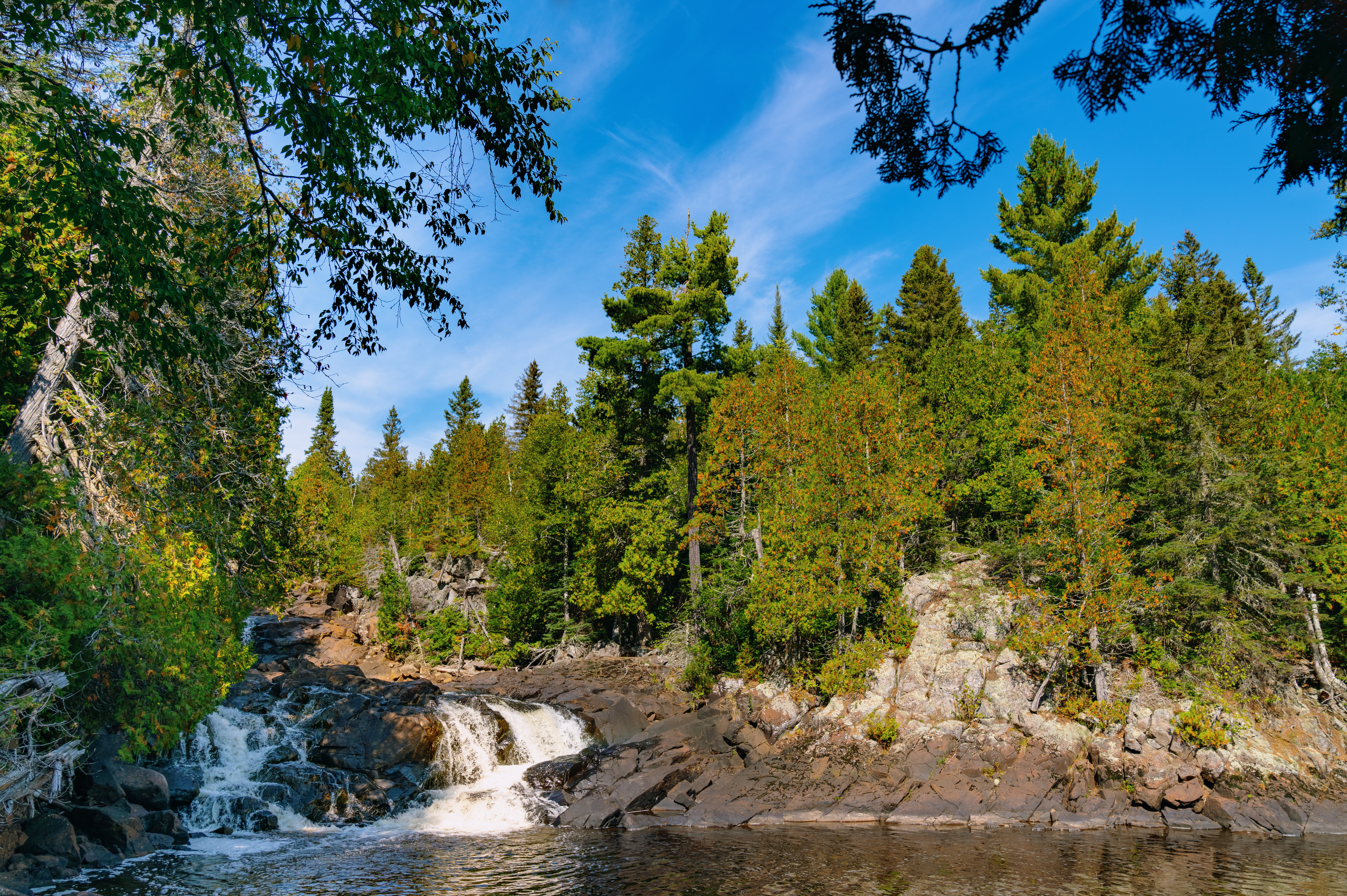 Autumn at George H. Crosby Manitou State Park, North Shore, Minnesota.